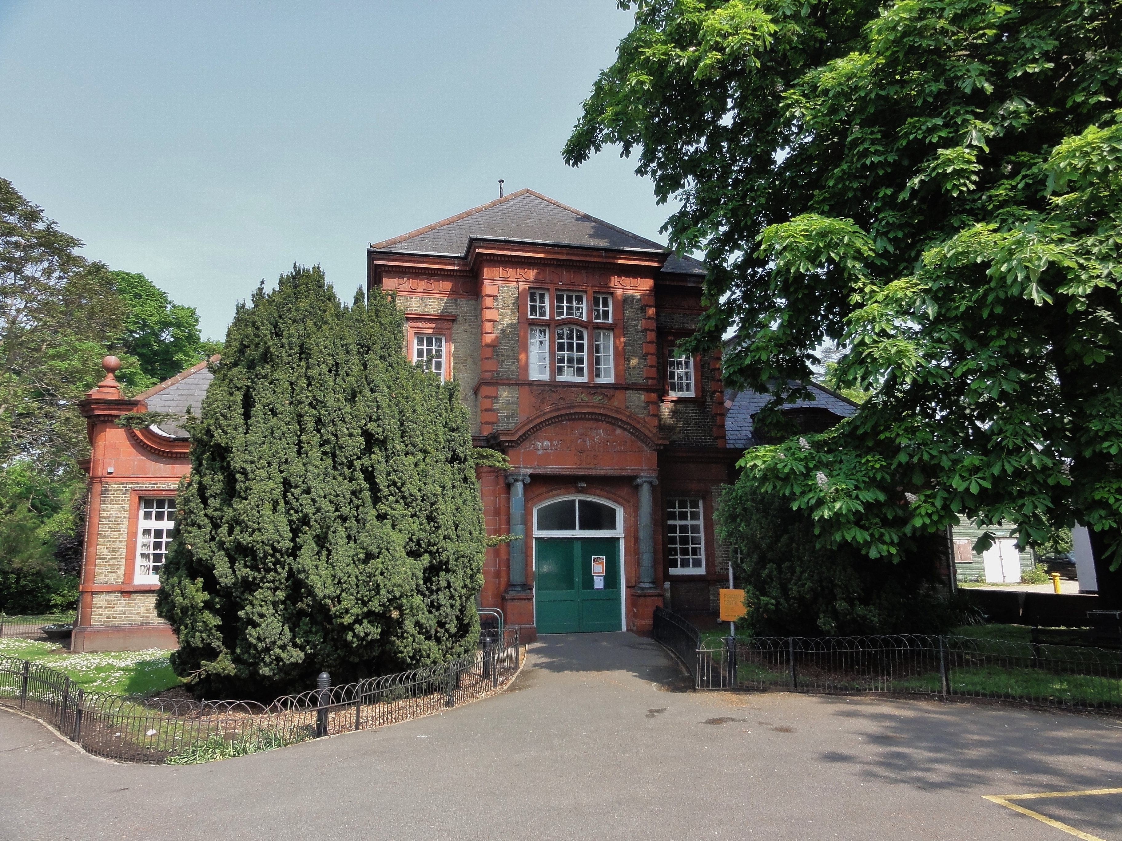 Brentford Library in Boston Manor Road